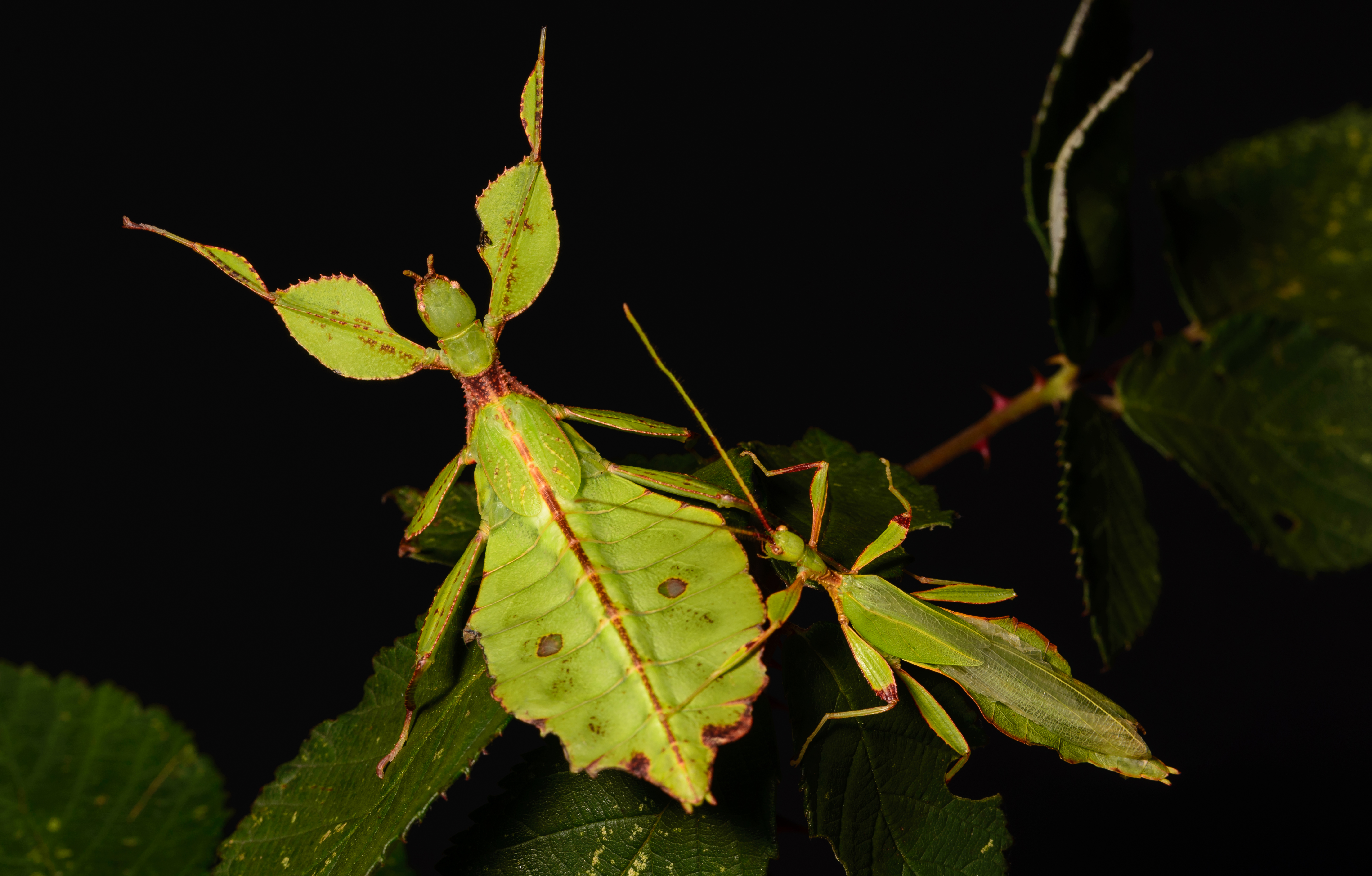 Phyllium Philippinicum